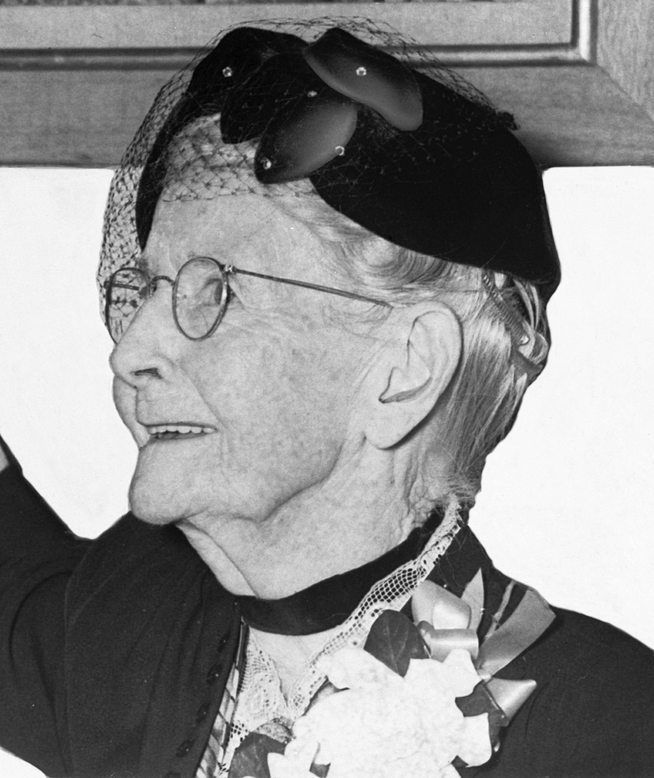 Grandma Moses, cropped from photo of "Grandma Moses donating her painting "Battle of Bennington" to Mrs. George Kuhner who accepts it for DAR." (Photo cropped because the painting itself is most likely still copyrighted.)